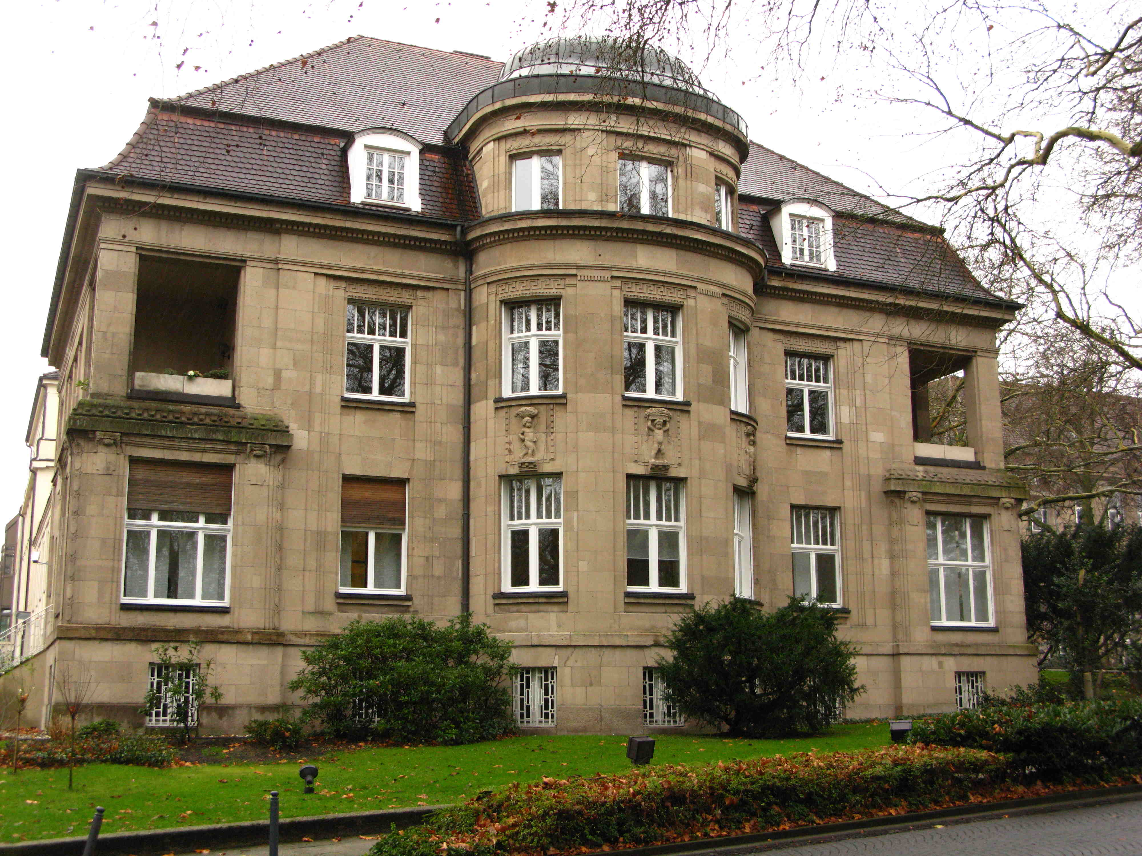 Villa Koppers: former residence of Essen industrialist Heinrich Koppers, Moltkeplatz, Moltkeviertel in Essen; built in 1911